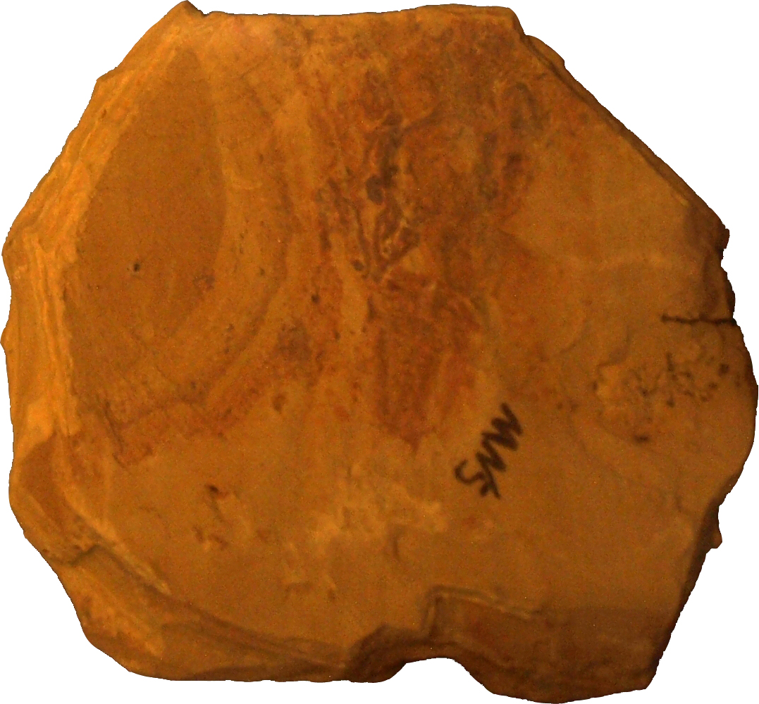 An example of Naraoia (Walcott) on display at the Paleozoological Museum of China (background knocked out for clarity).